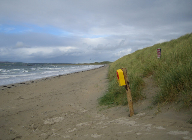 Banna Strand It was probably somewhere along this part of the strand that Sir Roger Casement made his landing from a German submarine on Good Friday morning of 21st April 1916. See 257122 in the adjacent grid square for the details of the landing as shown on the memorial.